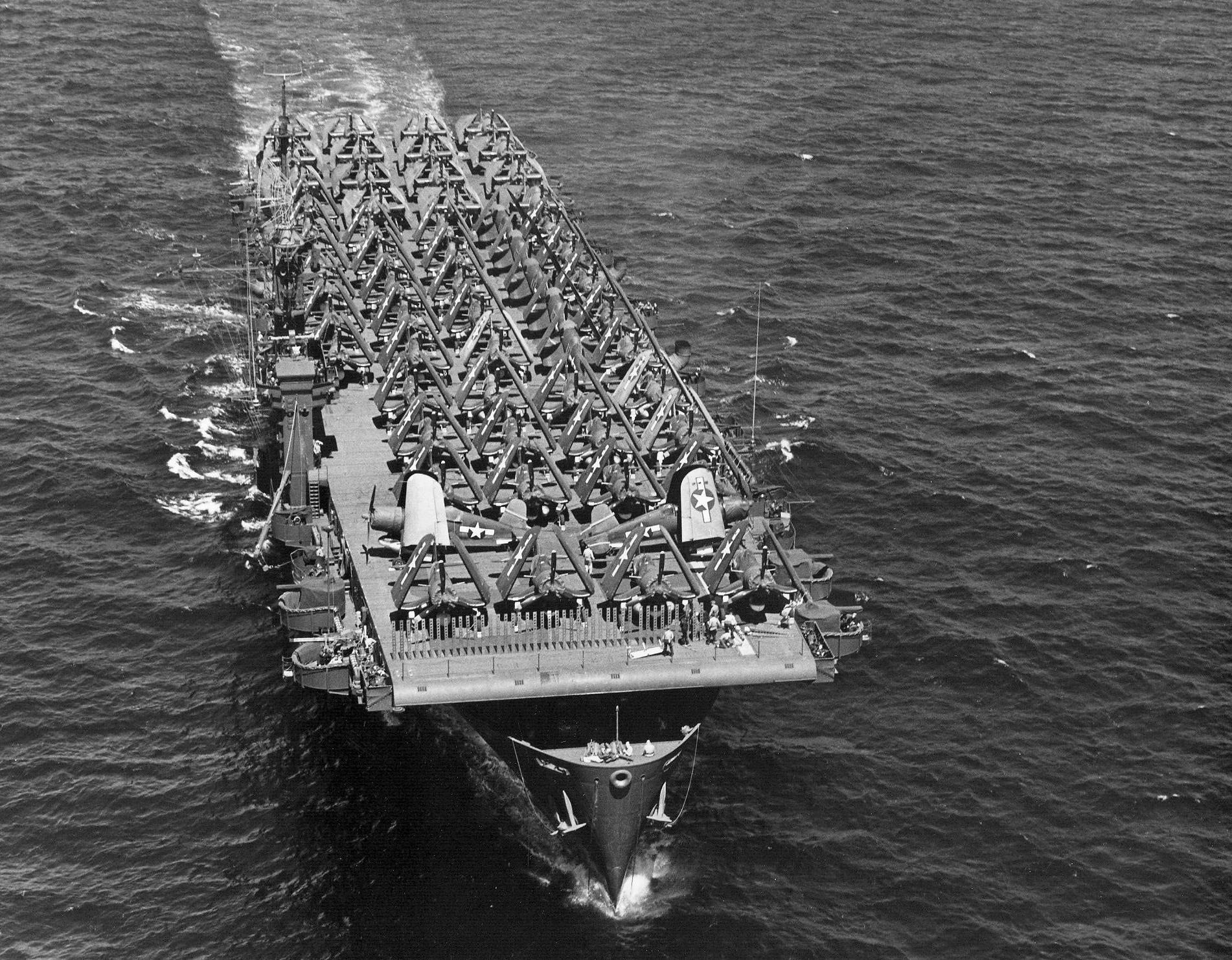 The U.S. Navy escort carrier USS Kwajalein (CVE-98) underway transporting Vought F4U Corsair and Grumman TBF Avenger aircraft to the war zone.